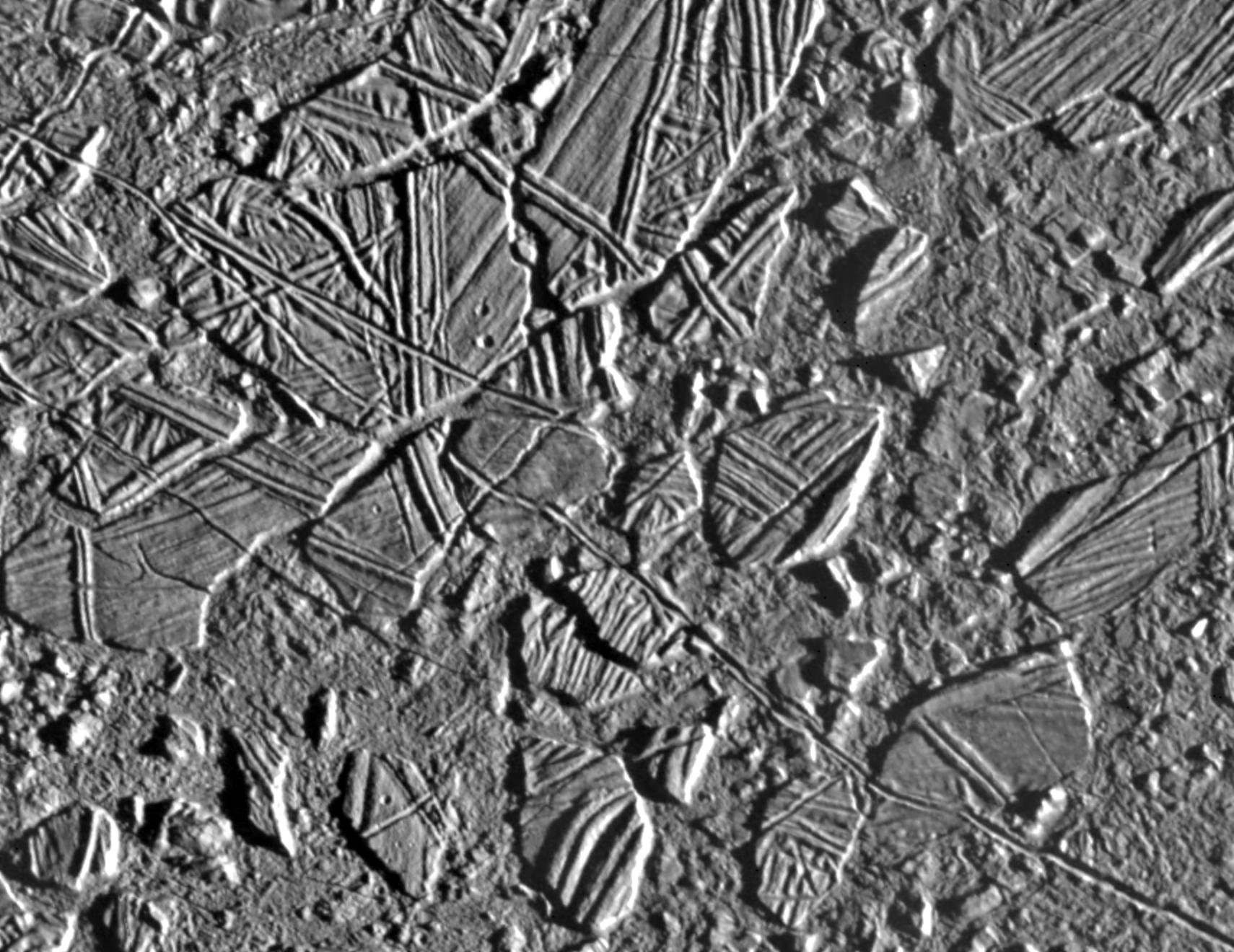 This high resolution image shows the ice-rich crust of Europa, one of the moons of Jupiter. Seen here are crustal plates ranging up to 13 km (8 miles) across, which have been broken apart and "rafted" into new positions, superficially resembling the disruption of pack-ice on polar seas during spring thaws on Earth. The size and geometry of these features suggest that motion was enabled by ice-crusted water or soft ice close to the surface at the time of disruption. The area shown is about 34 km by 42 km (21 miles by 26 miles), centered at 9.4 degrees north latitude, 274 degrees west longitude, and the resolution is 54 m (59 yards). This picture was taken by the Solid State Imaging system on board the Galileo spacecraft on 20 February 1997, from a distance of 5,340 km (3,320 miles) during the spacecraft's close flyby of Europa.